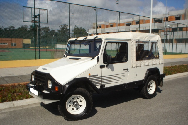 UMM Alter II Turbo 1993